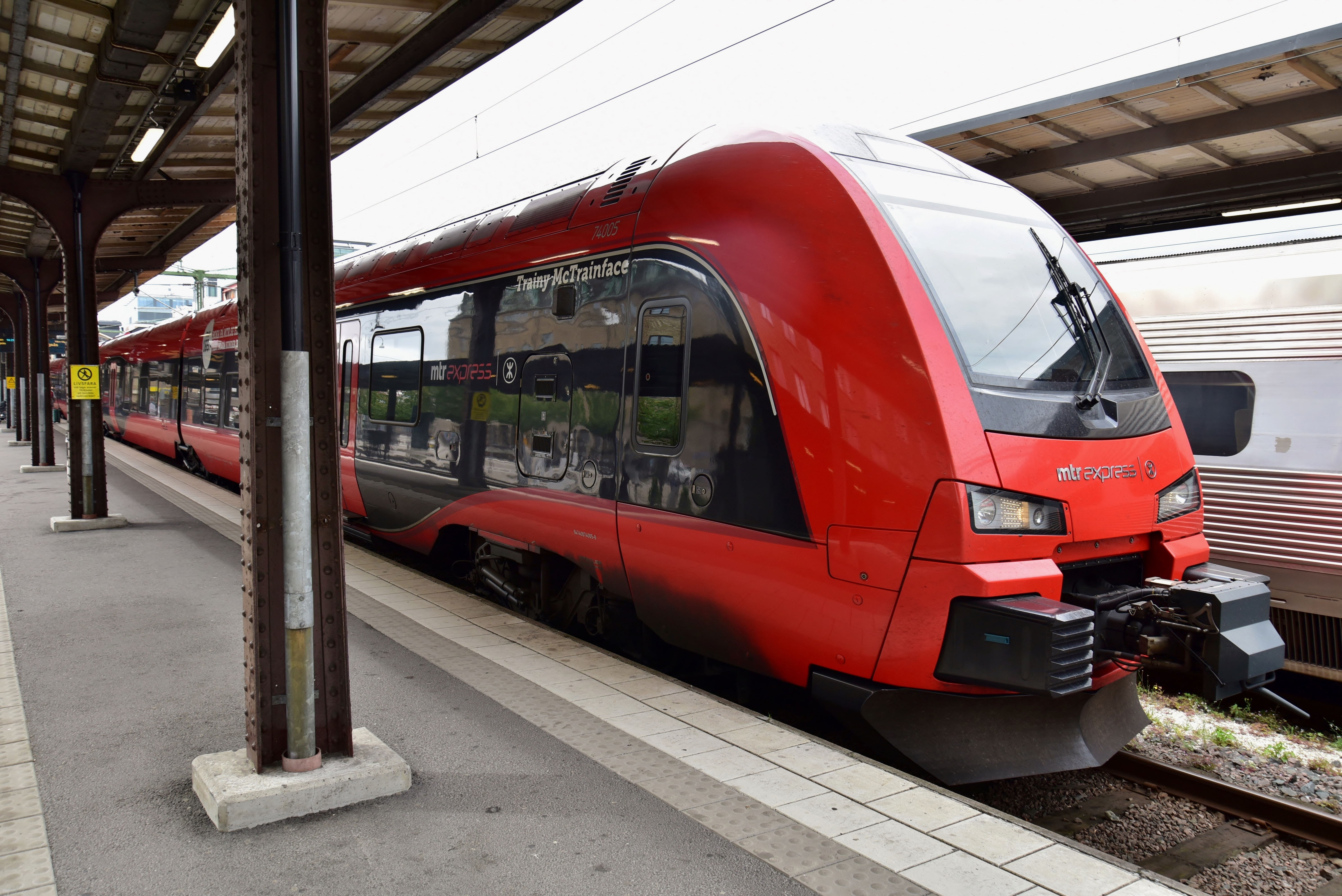 MTR Express Stadler FLIRT X74 class unit no 74005, better known as Trainy McTrainface, laying over at Gothenburg Central Station after arriving from Stockholm